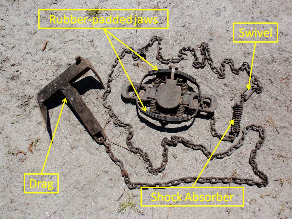 This is an example of the type of trap used by the Red Wolf Recovery Program. For information on the use of traps visit our blog at . Photo credit: D. Rabon/USFWS